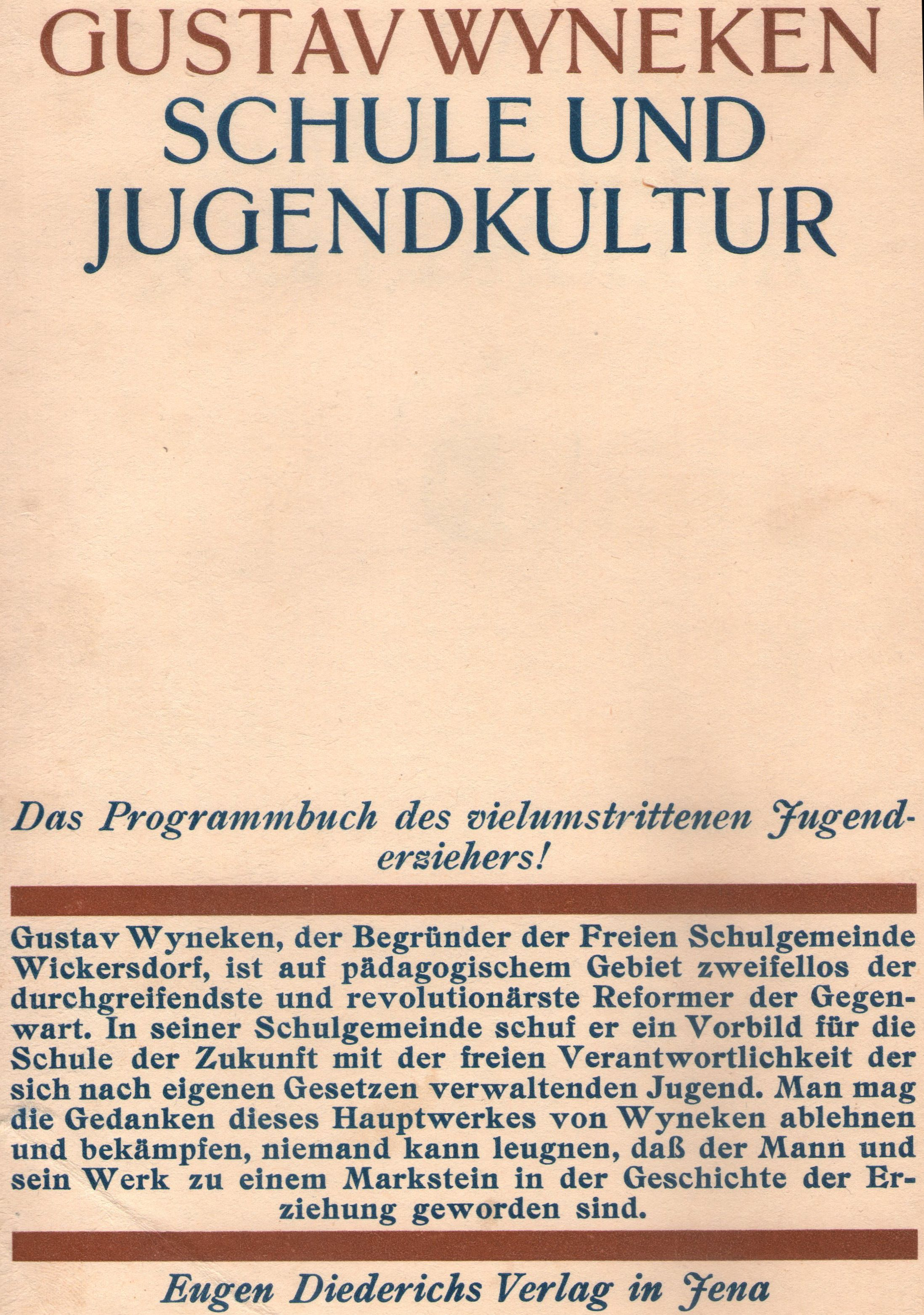 Dustcover of: Gustav Wyneken: Schule und Jugendkultur. Jena, Eugen Diederichs Verlag 1928.